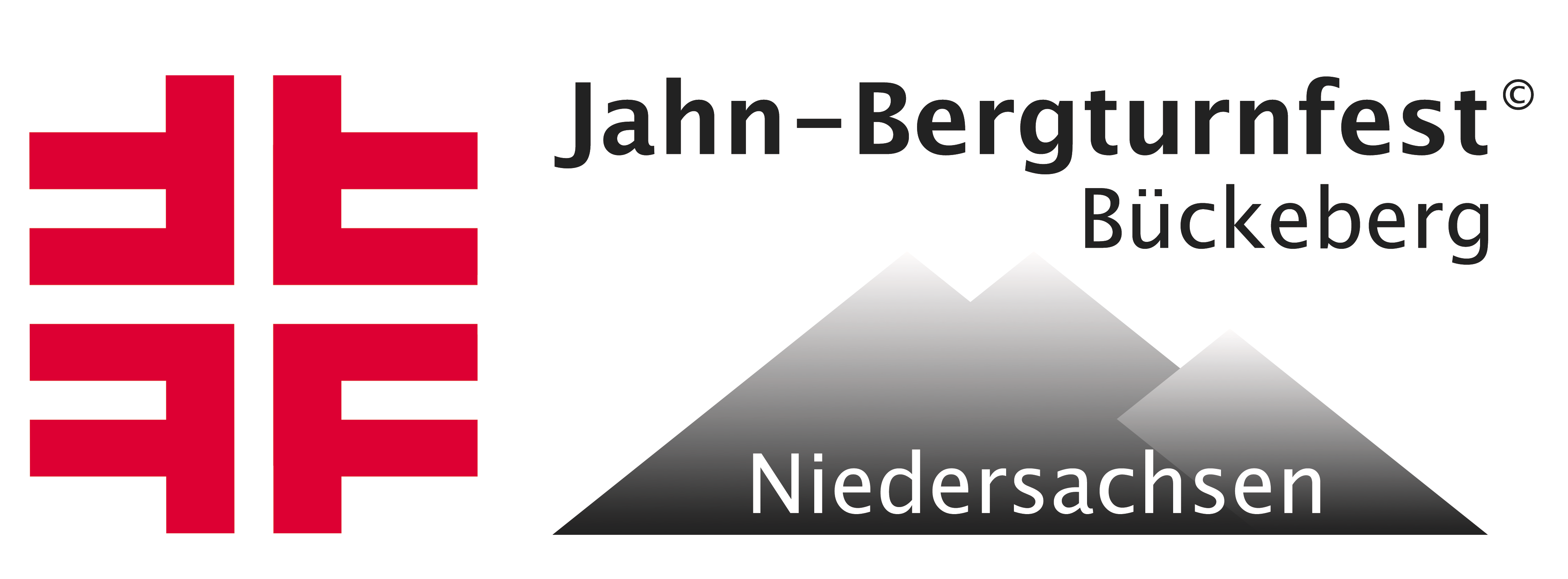 Official logo of Jahn-Bergturnfest, Bückeberg, Lower Saxony, Germany, exclusively created for the event